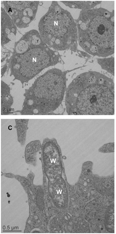 Low-magnification transmission electron micrograph of C6/36_TET cells with no bacterial signal in host cell cytoplasm (A). Wolbachia presumably is undergoing the process of cell division (C).